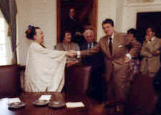 Margo Albert meeting Ronald Reagan in connection with Albert's service on the Presidential Task Force on the Arts and Humanities